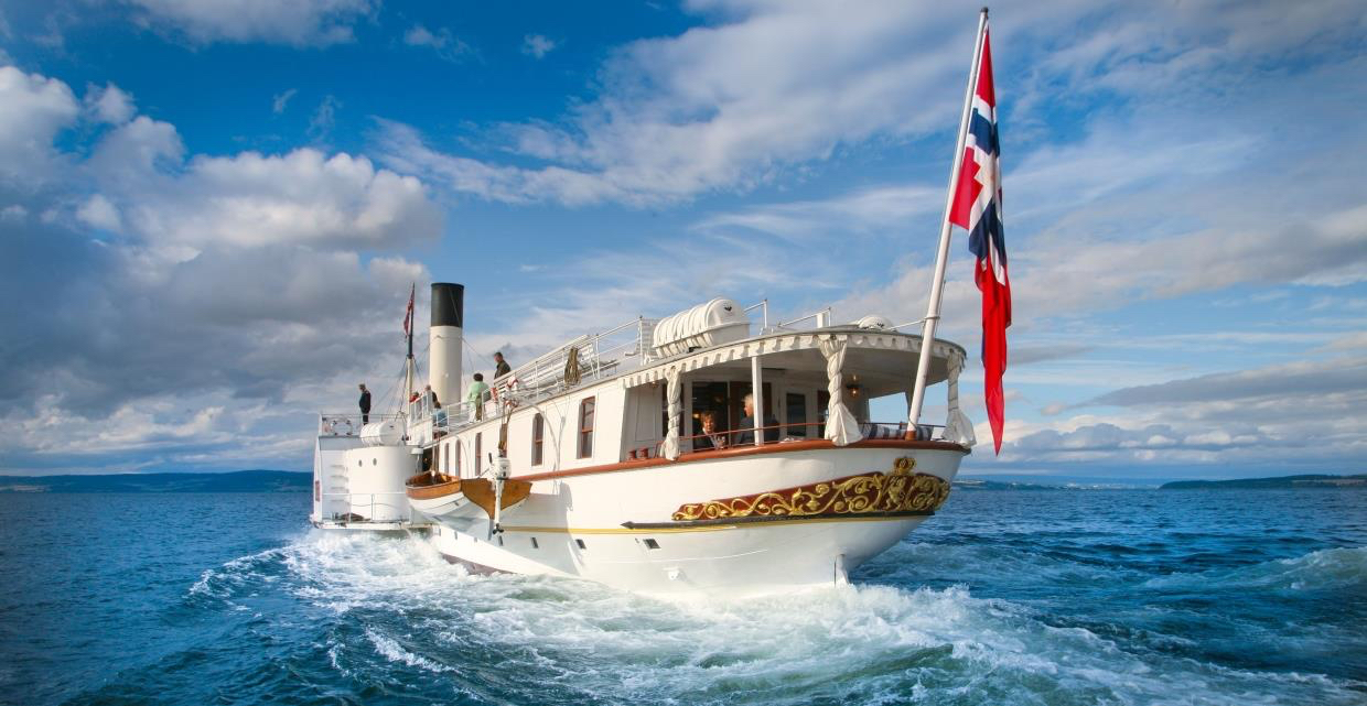 Verdens eldste hjuldamper i drift som passasjerbåt har hjemmehavn Gjøvik